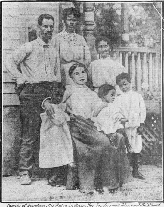 Chicago Tribune. Donnegan family after his death.